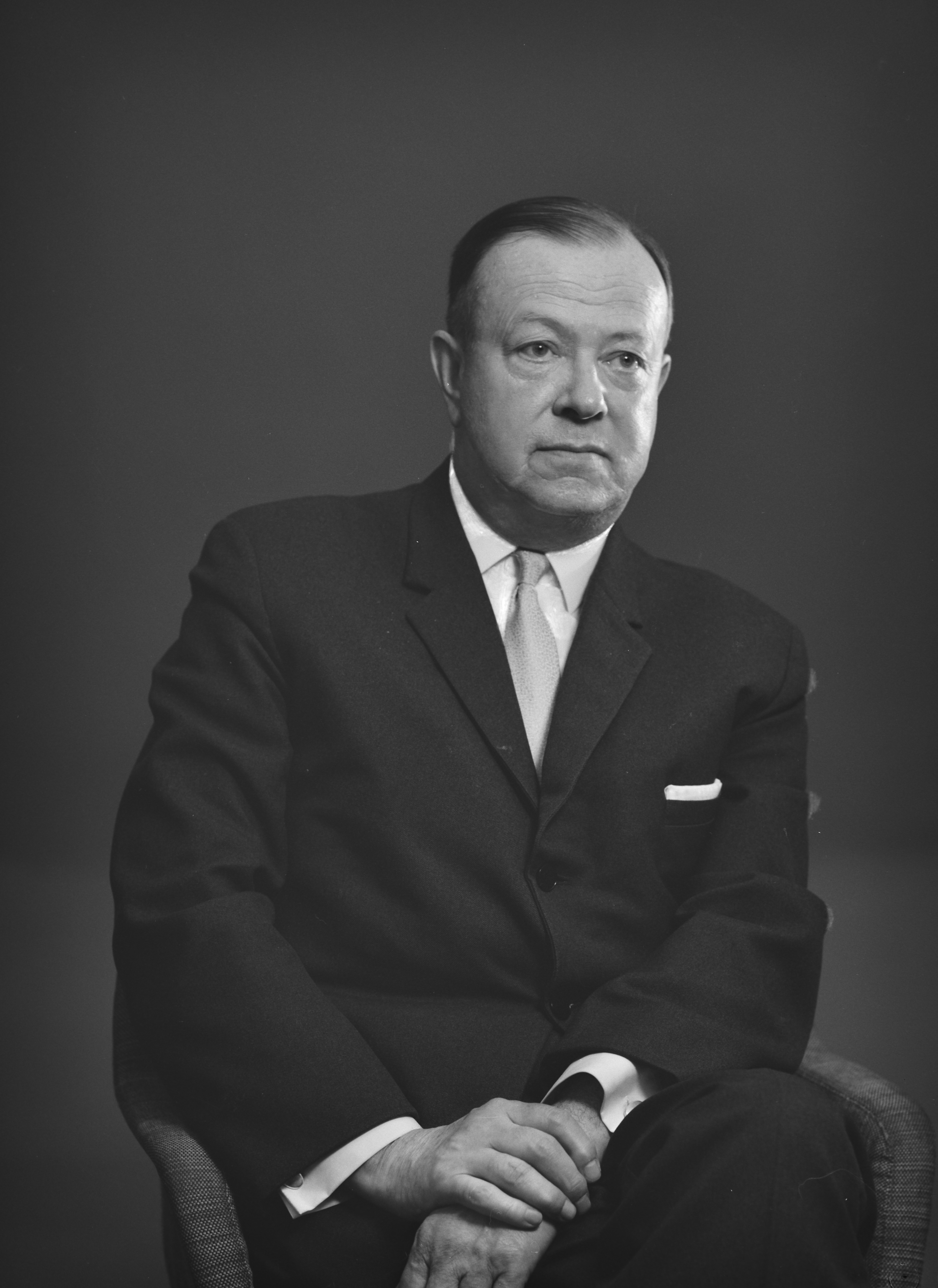 Photograph of the Finnish physician and historian Gunnar Soininen (1904–1973).